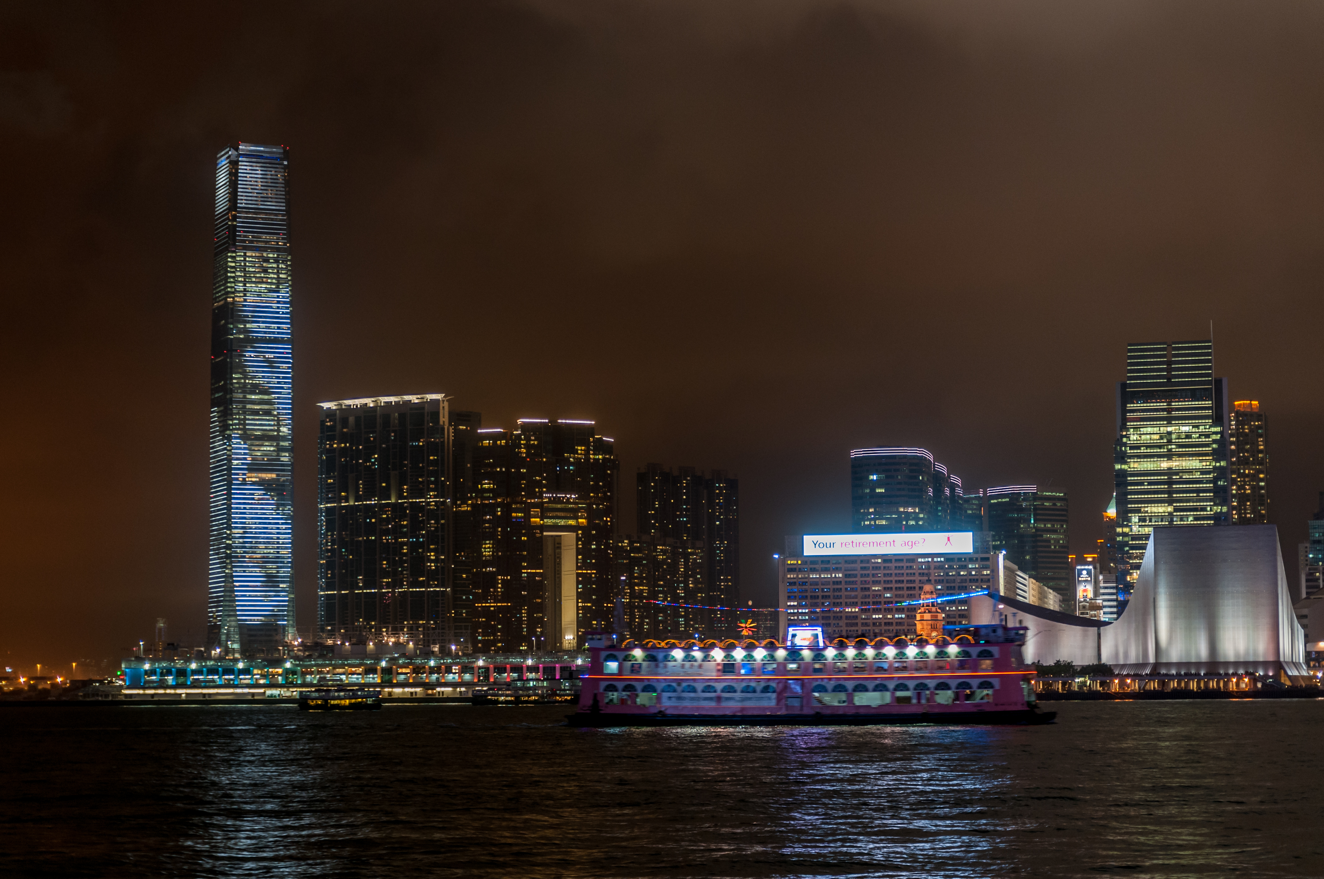 Hong Kong center night